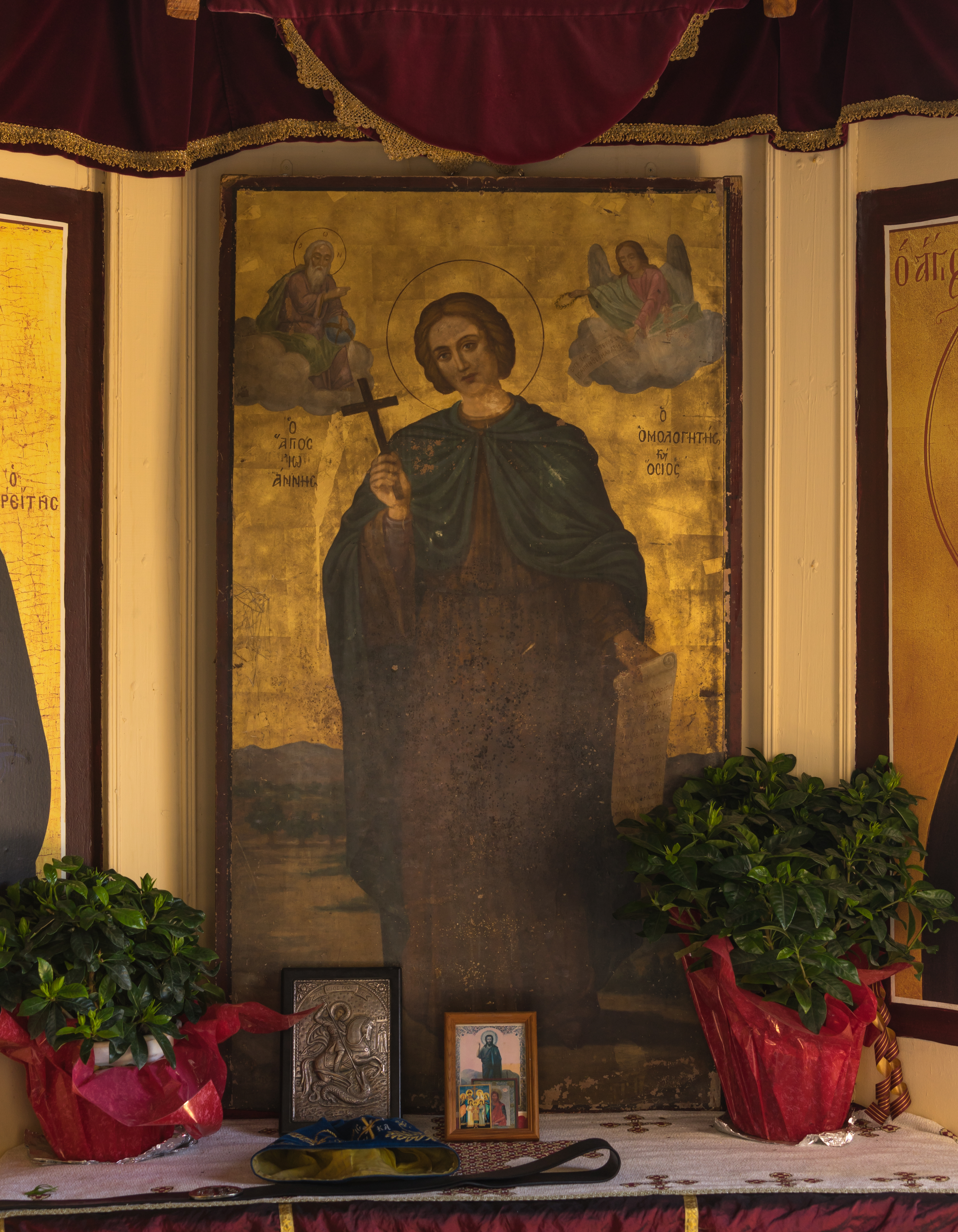 John of the Russians, ikon in Prokopi, Euboea, Greece.